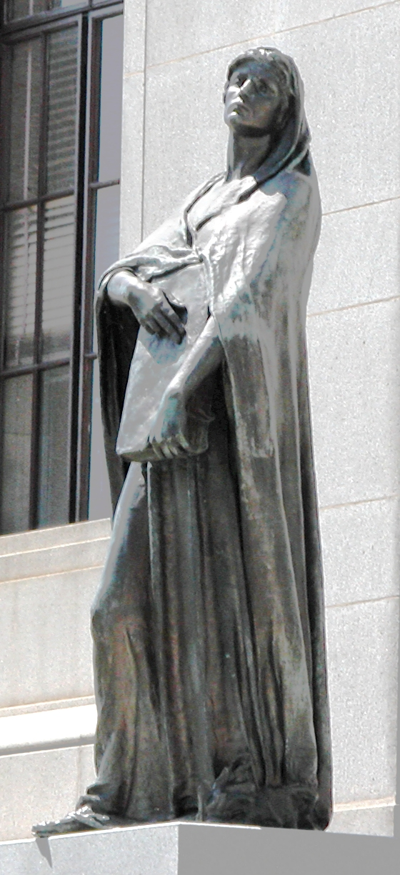 Statue of Truth outside the Supreme Court of Canada in the capital City, Ottawa in the province, Ontario.